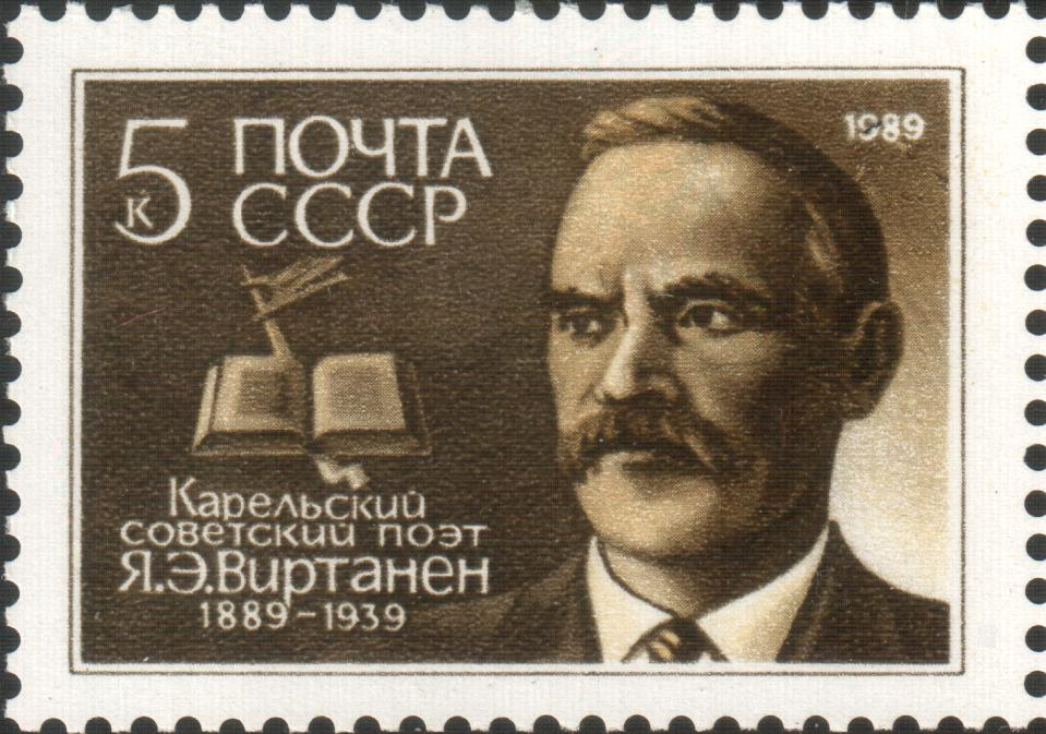 A USSR stamp